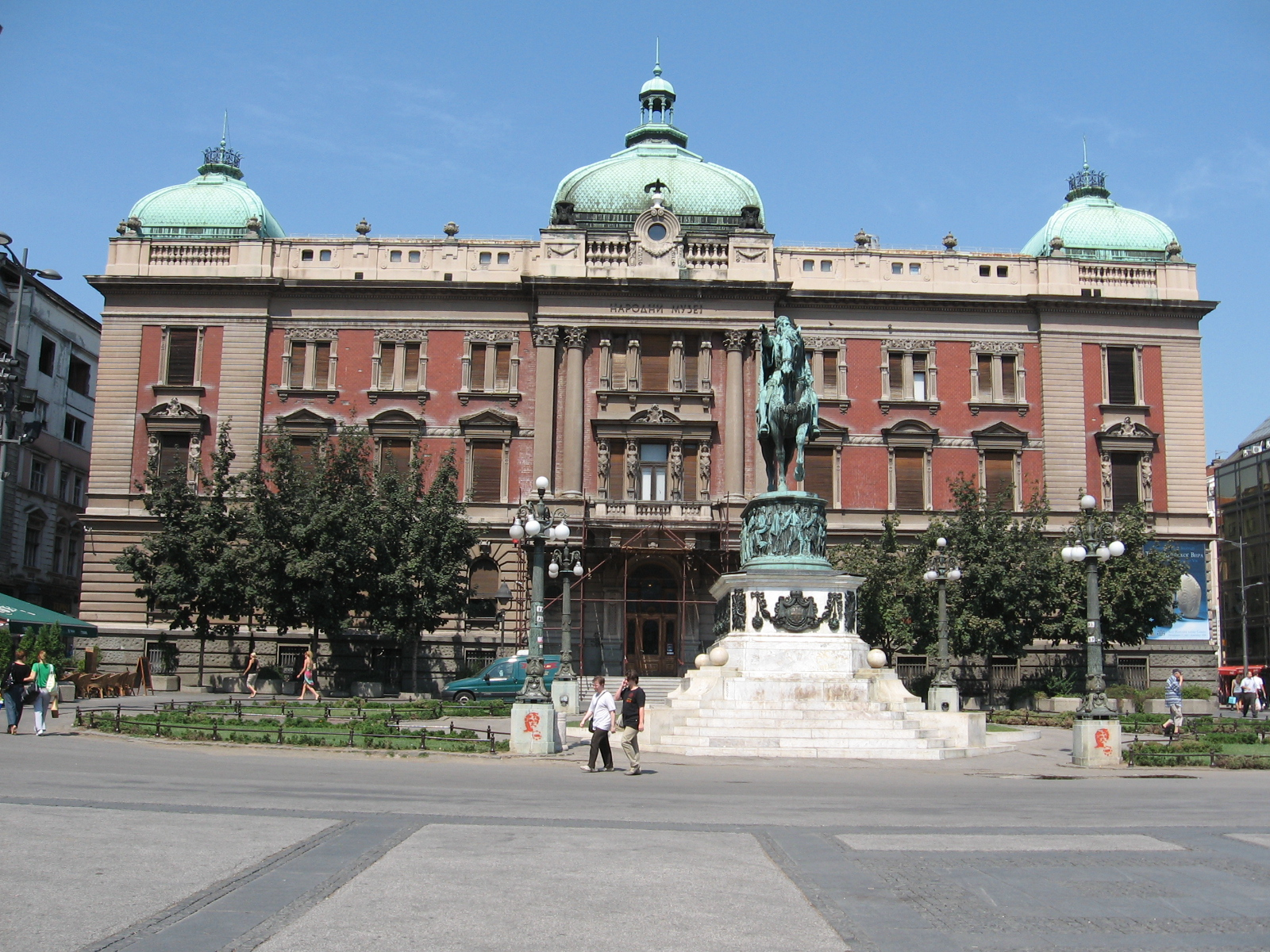 National Museum, Belgrade